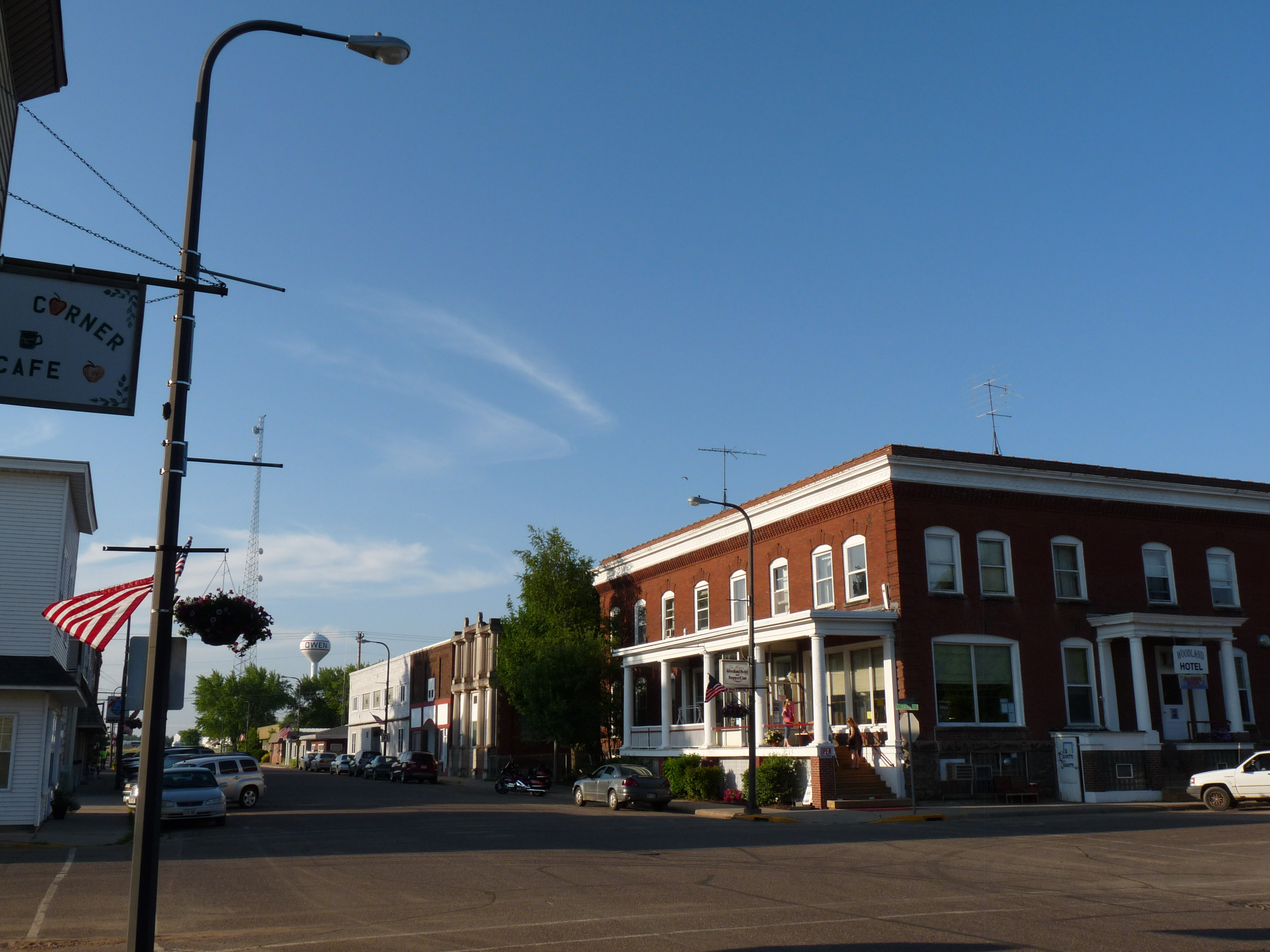 The old downtown of Owen, Wisconsin, looking north on Central Avenue. On the right is the Woodland Hotel, built it 1906 by the John S. Owen lumber company, for which Owen was named. The hotel was designed by Madison architects Claude and Starck. It was added to the National Register of Historic Places in 2016.